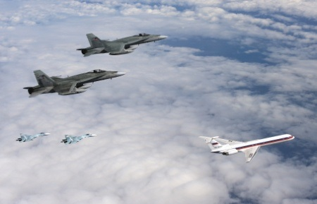 Canadian CF18 Hornet aircraft from 409 Squadron in Cold Lake, Alberta, and Russian Su-27 aircraft from Anadyr, Russia are practicing procedures to transfer a simulated hijacked airplane from Russian to American airspace during the NORAD Exercise Vigilant Eagle 13, Aug. 28, 2013. (Photo: Cpl. Vicky Lefrancois, DAirPA)